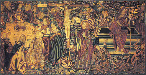 Carpet. Made in Tournai, France